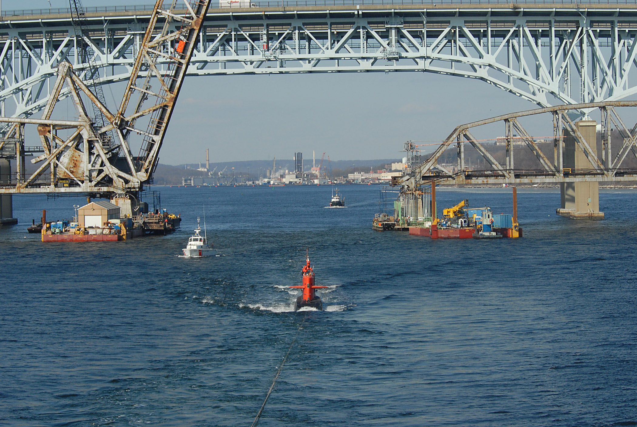 GROTON, Conn. (Feb. 12, 2007) - Nuclear research submarine NR-1 is towed by Military Sealift Command (MSC) submarine support vessel MV Carolyn Chouest as the submarine passes under the Gold Star Bridge and Thames River Draw bridge. NR-1 is scheduled to conduct a visual and acoustic survey of the Flower Garden Banks in the Gulf of Mexico. U.S. Navy photo by Mass Communication Specialist 1st Class John Fields (RELEASED)